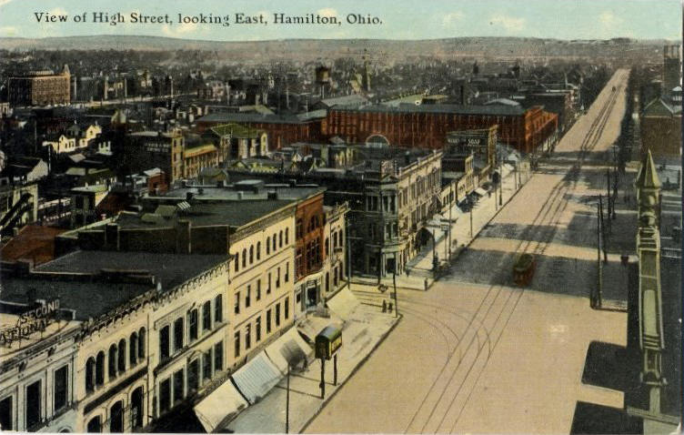 Postcard: High Street, looking east, Hamilton, 1911 postmark Description: Caption: "View of High Street, looking East, Hamilton, Ohio" Store Web page shows address side of card which states along left side: "Published expressly for S. H. Knox & Co., Made in U. S. A.